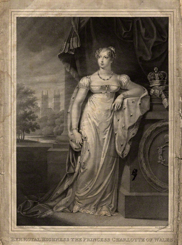 Portrait of Princess Charlotte Augusta of Wales